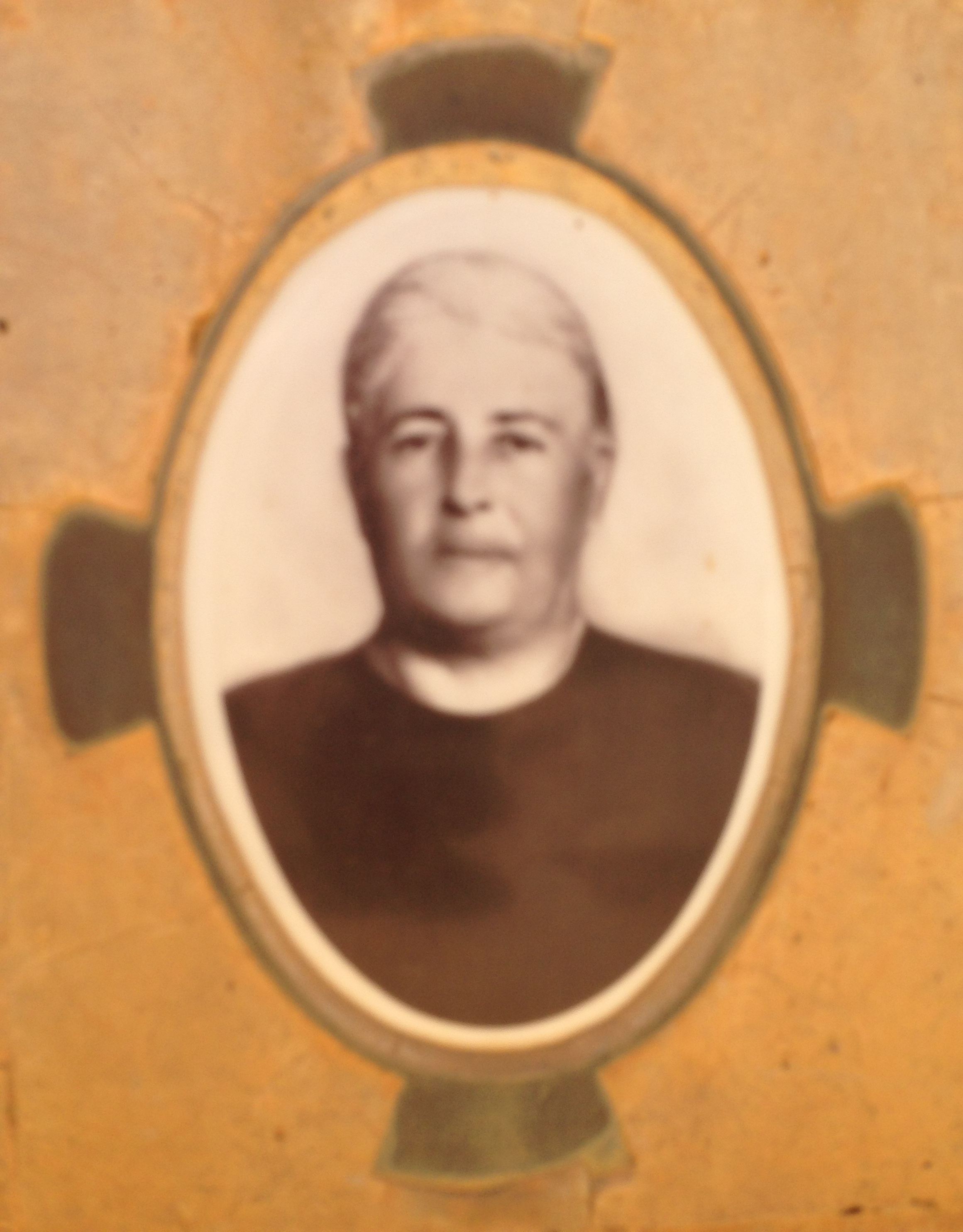 Grave of ΑΙΚΑΤΕΡΙΝΗ Α. ΚΡΥΣΤΑΛΛΙΔΟΥ / Aikaterini A. Kristallidou (1888-1948) in the Greek section of the Christian Cemetery in Khartoum, Sudan